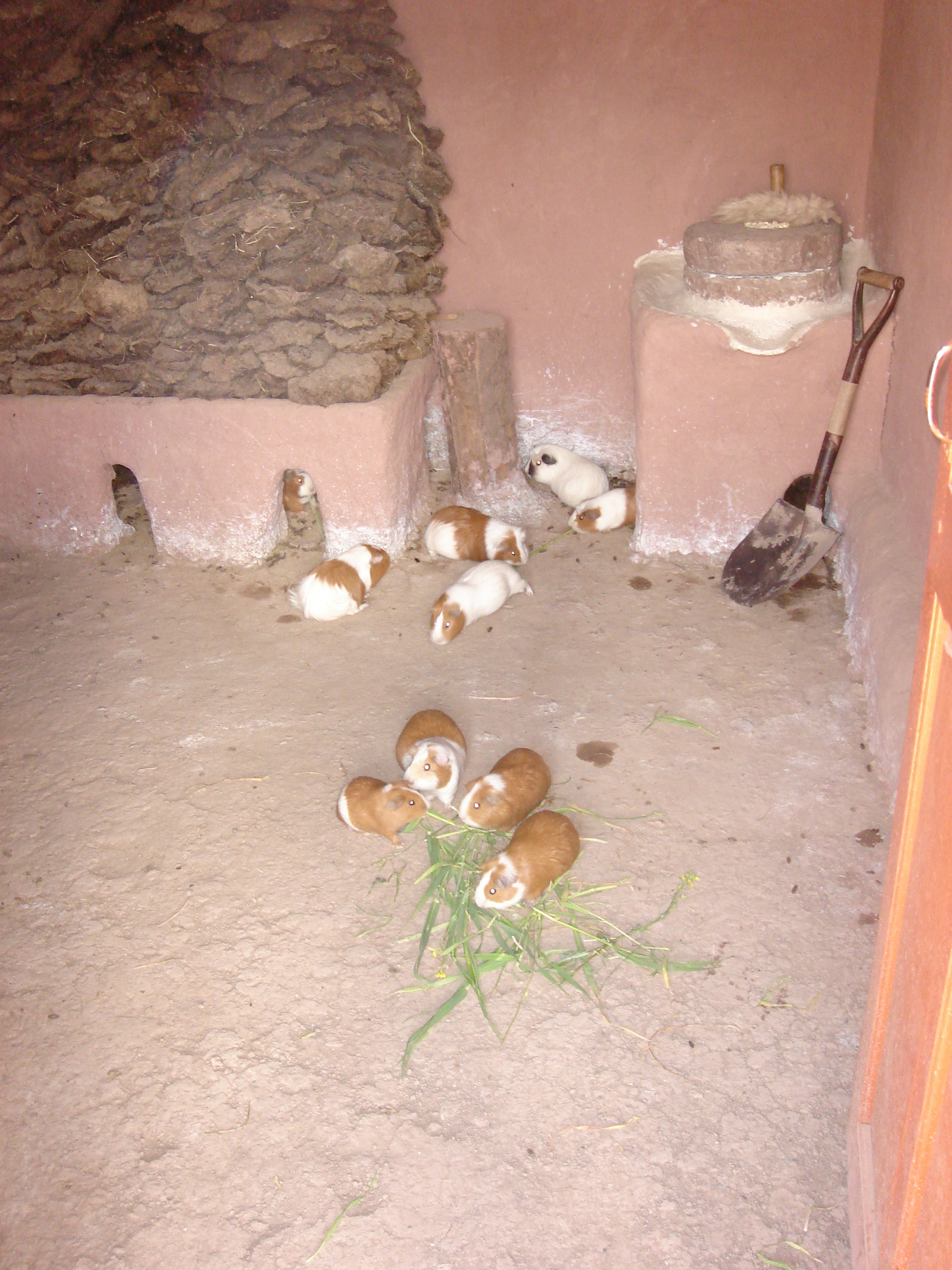 These guys were munching grass in the kitchen. Little did they know they'd be dinner, later.